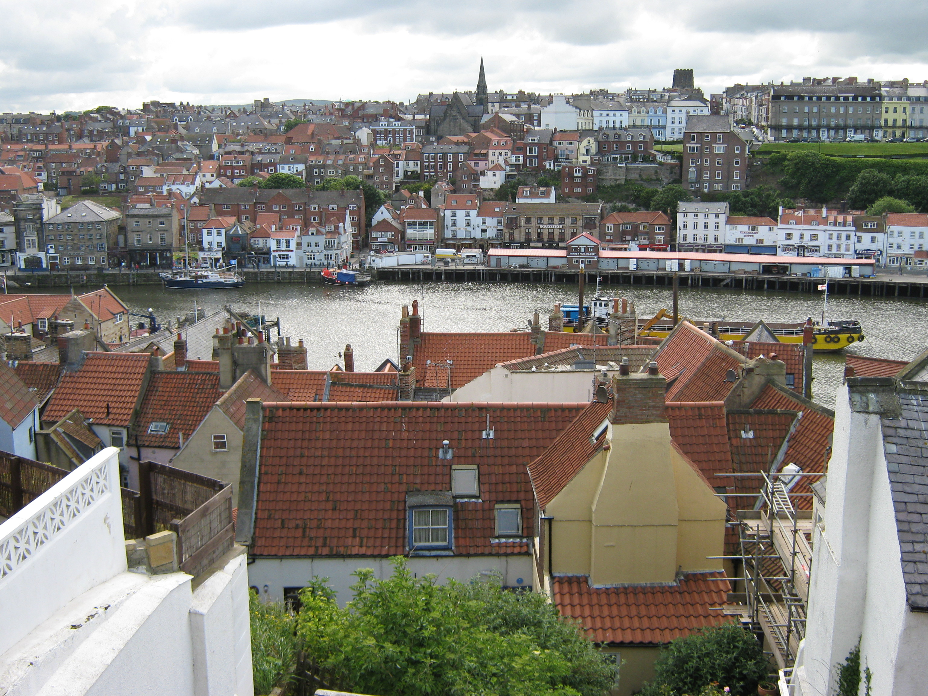 View across Whitby, Yorkshire, from the 199 steps, looking westward across the River Esk